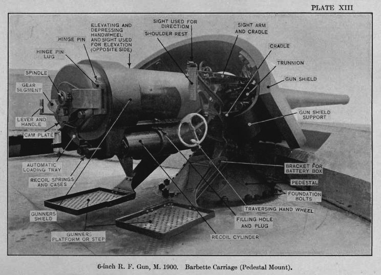 Image of a 6-inch Coast Artillery gun, Model 1900, Barbette Mount.